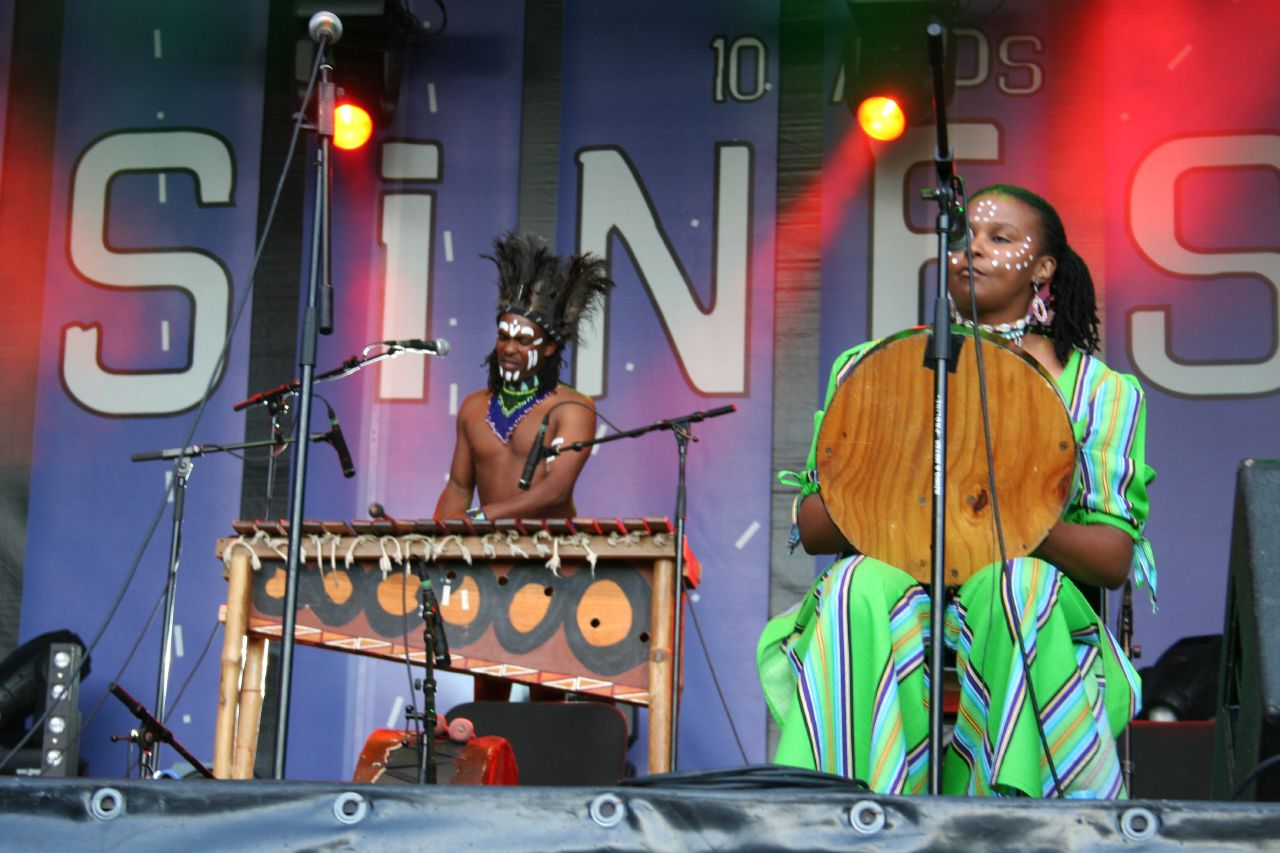 FMM Festival das Musicas do Mundo 2008 in Sines Portgual